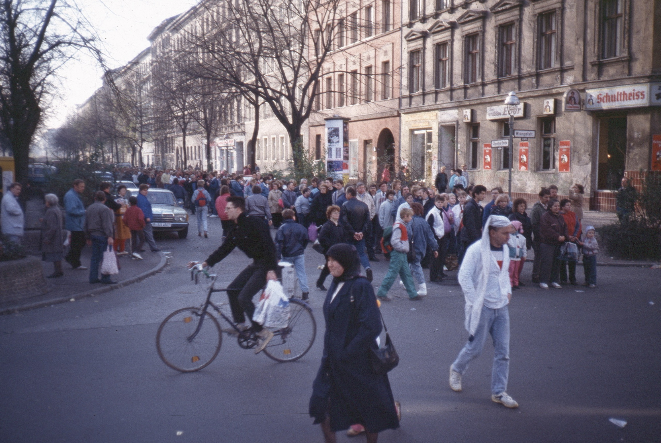 Oppelner Strasse in Berlin - Shortly after the opening of the border, East German citizens queued up to pick up a welcome handout of 100 Deutschmarks. The line was interrupted only by the Wrangelstrasse and continued behind the photographer for just as long.